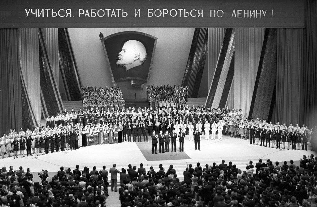 “50th YCL jubilee”. The Kremlin Palace of Congresses. The ceremonial meeting of the XVII Congress of the All-Union Leninist Young Communist League devoted to the 50th anniversary of conferring Lenin's name on the Young Communist League, or Komsomol. Delegates of the VI Komsomol Congress taking part in the meeting.